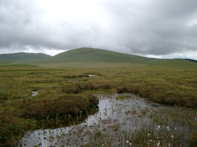 Classic Flow Country. Small lochans on the accessible bit of the RSPB Forsinard reserve